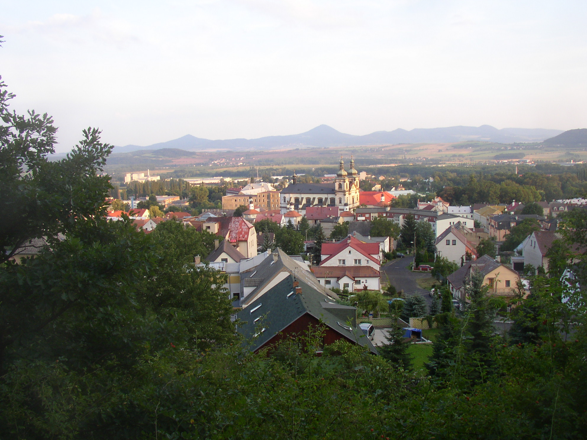 A view of Bohosudov, local part of Krupka, Czech Republic.